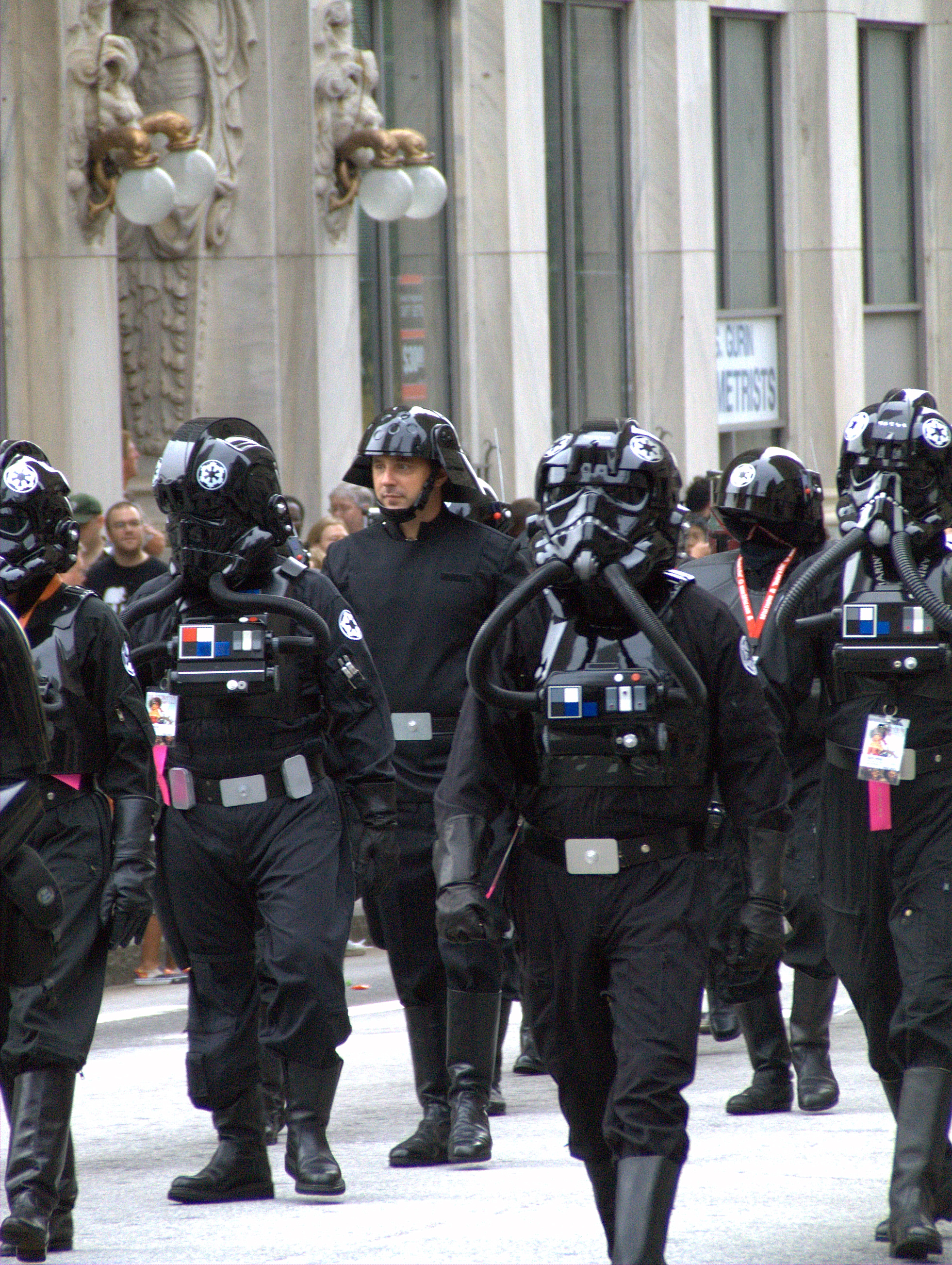 Soldiers of the Death Star crew (the parade at DragonCon 2006).